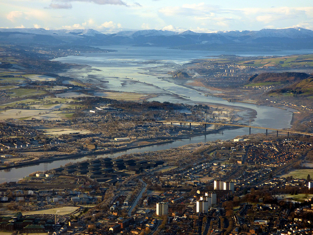 Looking downstream along the River Clyde to the Erskine Bridge, the Firth of Clyde and the Argyll hills.